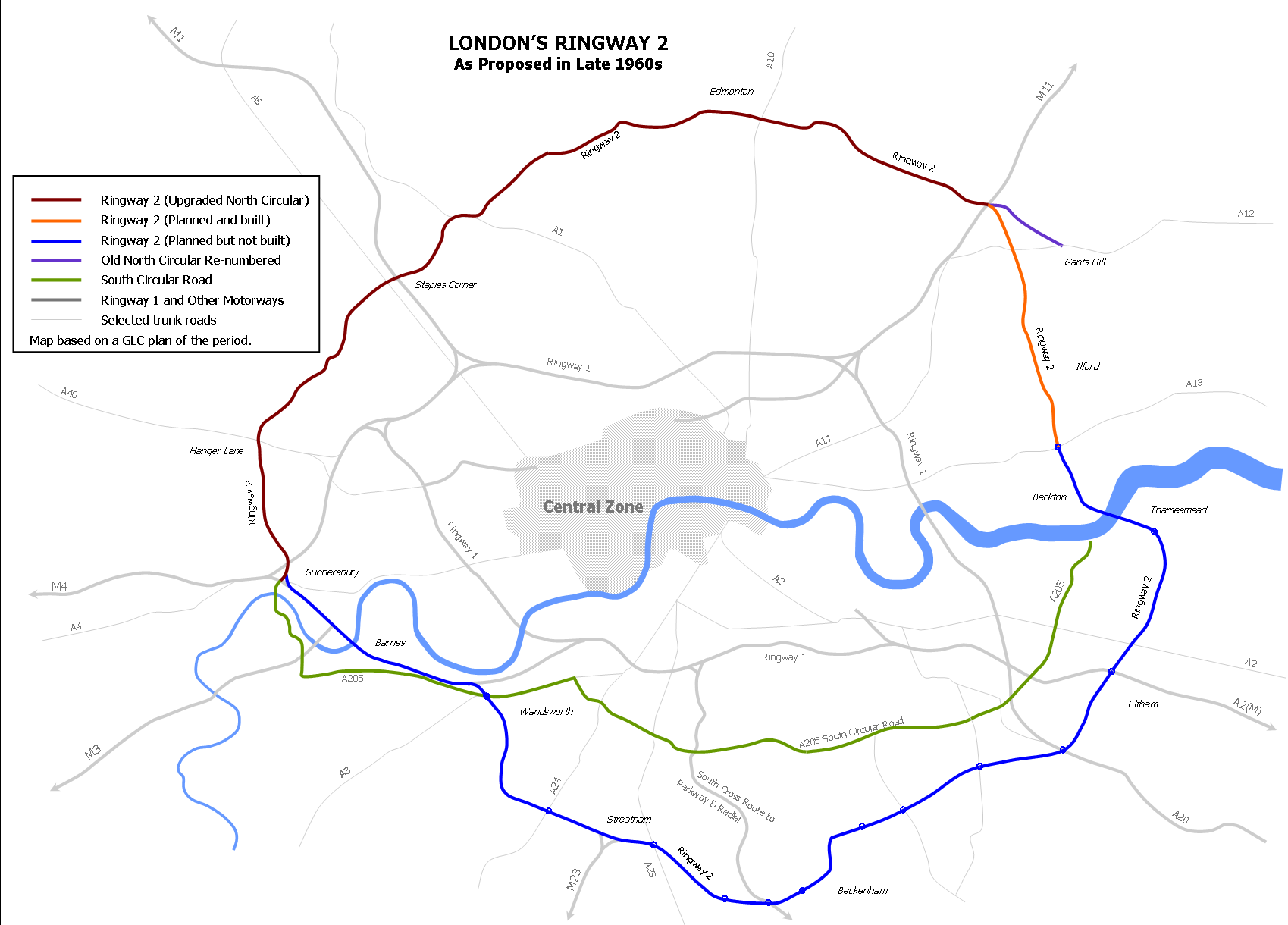 London Ringway 2 Plan from the late 1960s showing roads planned for Ringway 2, indicating those roads that were upgraded.